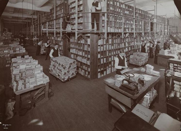 Workers in a stock room at Street & Smith on 7th Avenue and 15th Street.